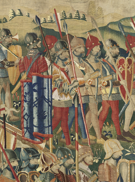 Museo Parroquial de Tapices de Pastrana; Pastrana; Castilla-La Mancha, Guadalajara; Spain; Flemish tapestry; Serie Conquistas de Alfonso V de Portugal; Tournai, h. 1472-1480, Lana y seda; Doornik, circa 1472-1480, Wol en zijde; ; 368x1108cm; Cultural heritage|Tapestry; Europe|Spain|Pastrana; Passchier Grenier (?); ; Ref.: PM_097103_E_Pastrana